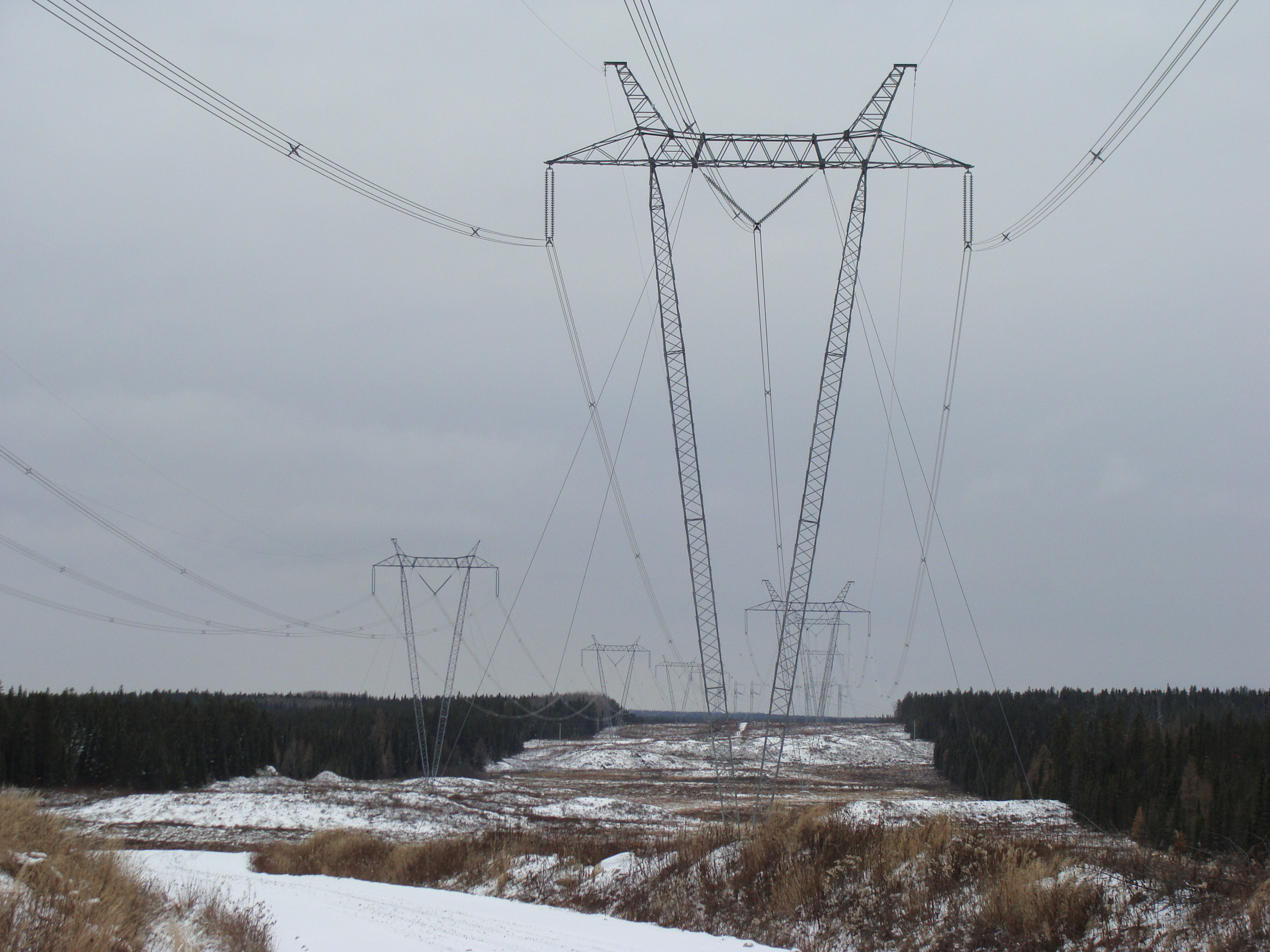 V-guyed towers from an Hydro-Québec 735kV line, near Chapais, Quebec